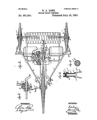 Patent no. 281,091. United States Patent Office patent issued July 10, 1883. Shows black and white line drawing of the Long steam tricycle. G.A. Long, inventor.